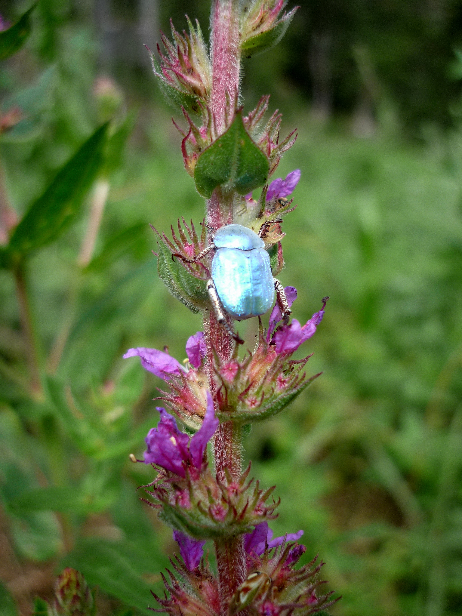 Lythrum salicaria. In Torà (Segarra - Catalunya). To 570 m. altitude